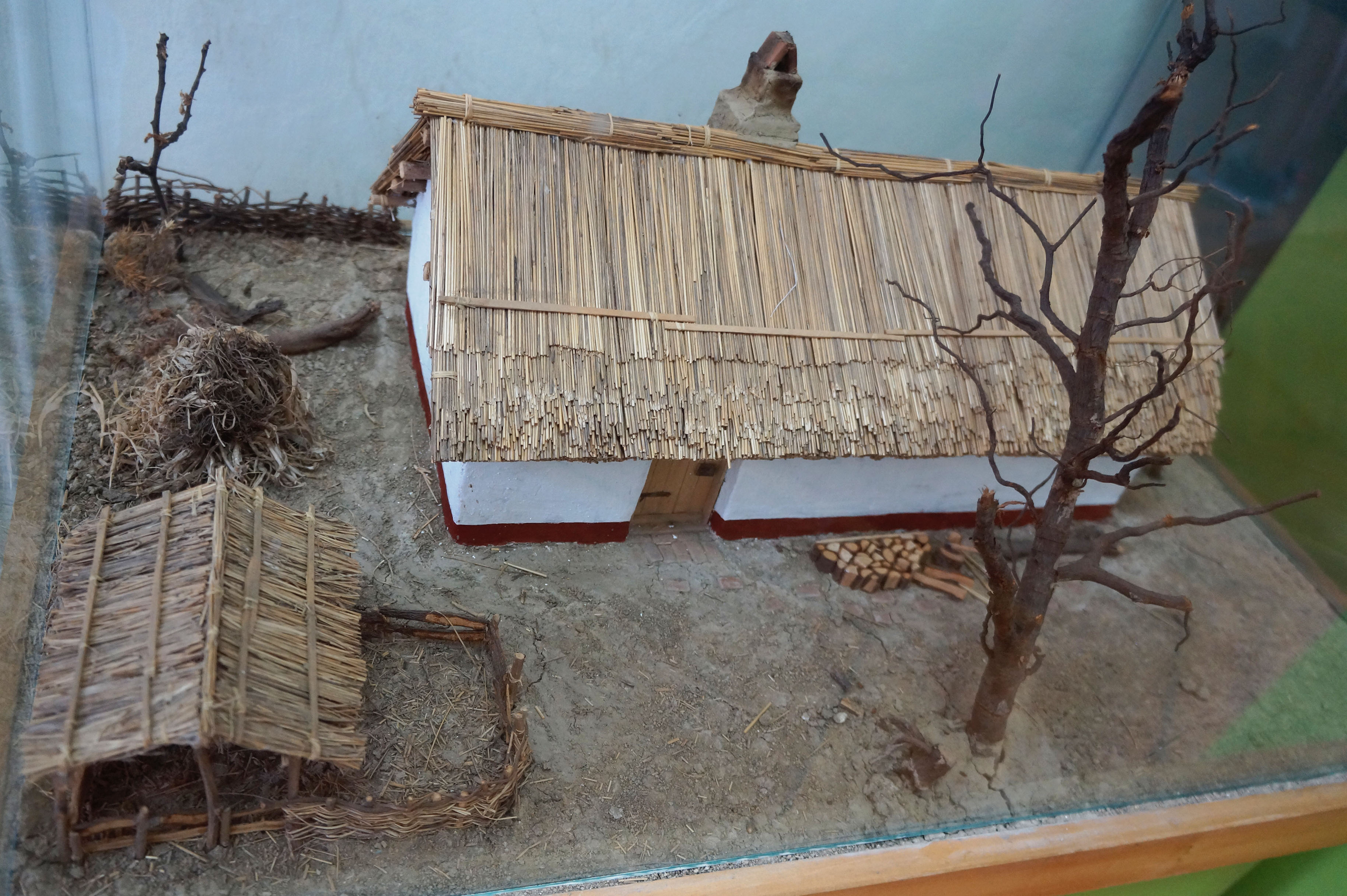 Model of a local traditional mudhut in the Kikinda Museum, Serbia.